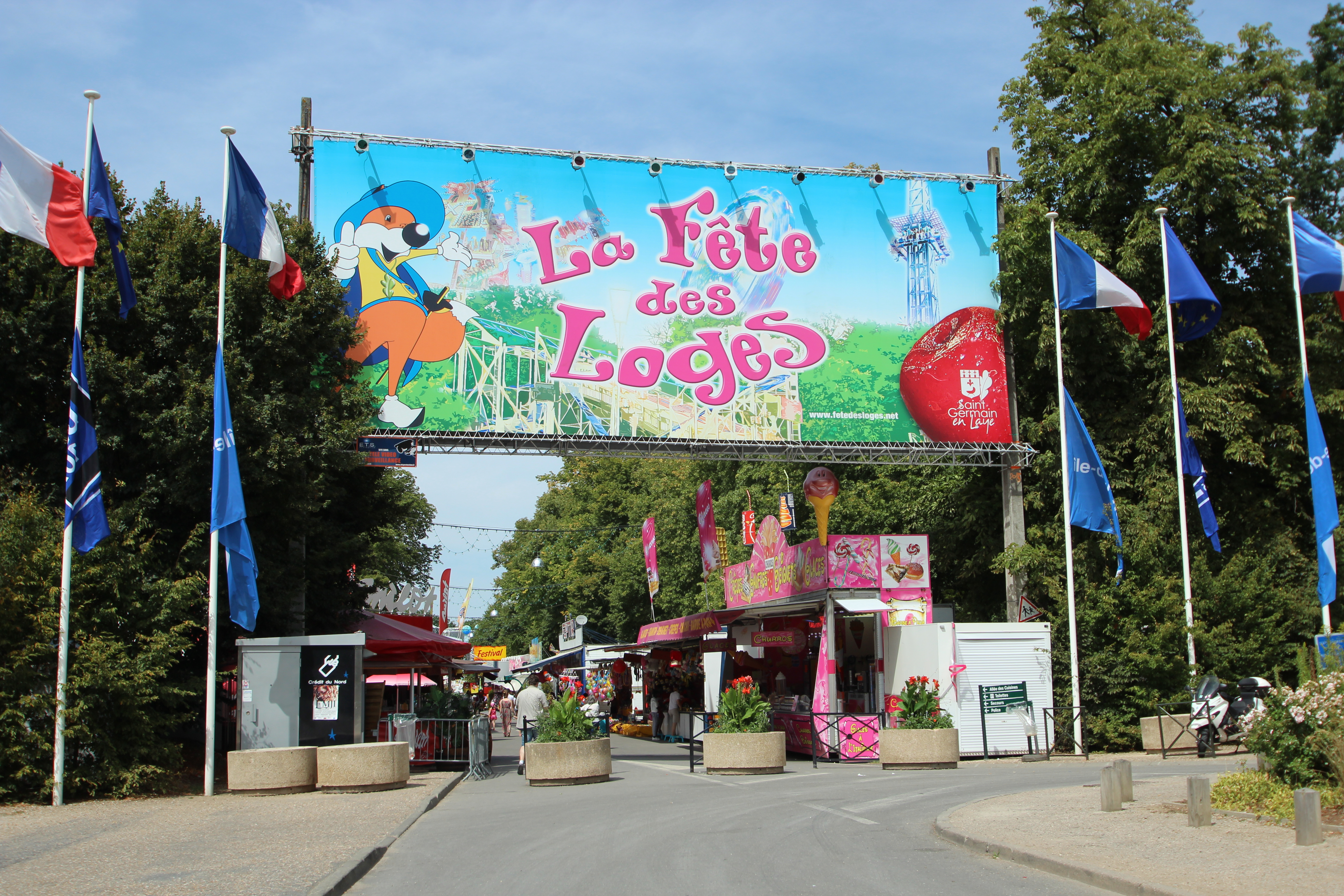 Fête des Loges fair in Saint-Germain-en-Laye, France. This image was uploaded as part of L'Été des villes 2015.